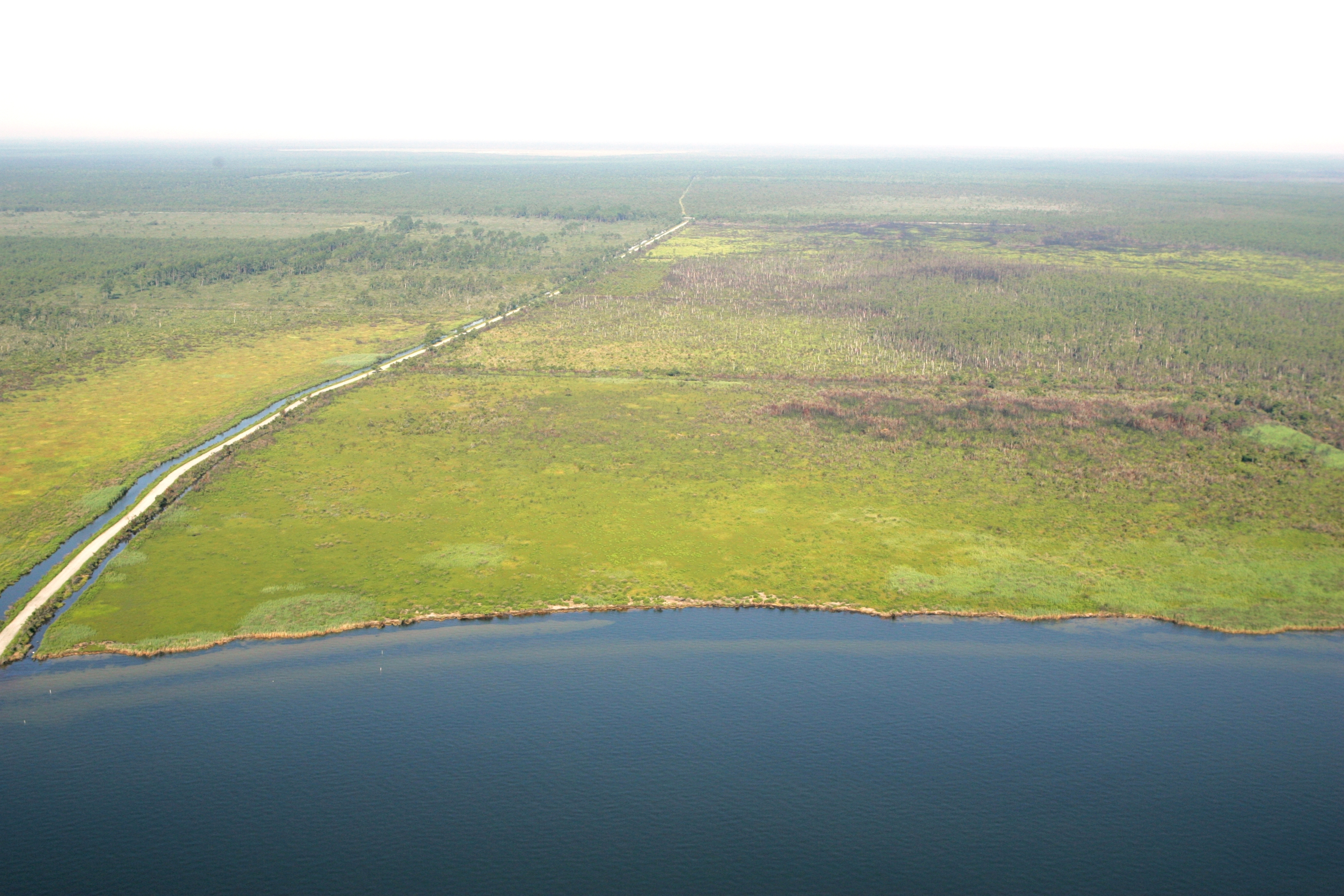 The east side of Alligator River National Wildlife Refuge on Pamlico Sound is ground zero for the Climate Change Adaptation Project. Artificial oyster reefs are being installed just offshore, and water control structures are being added to prevent salt water from shooting straight up the canal into the heart of the refuge. Credit: USFWS